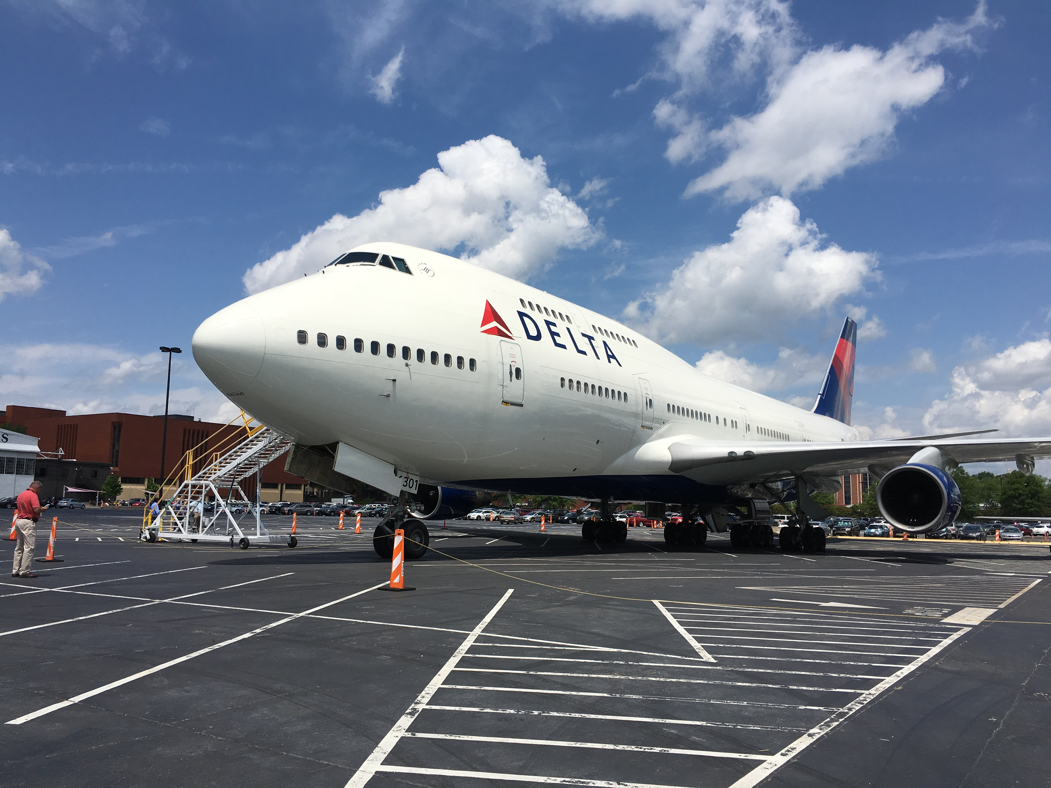 Ship 6301 enjoyed a smooth final arrival on Saturday Aug. 20, at its permanent location outside the Delta Flight Museum.